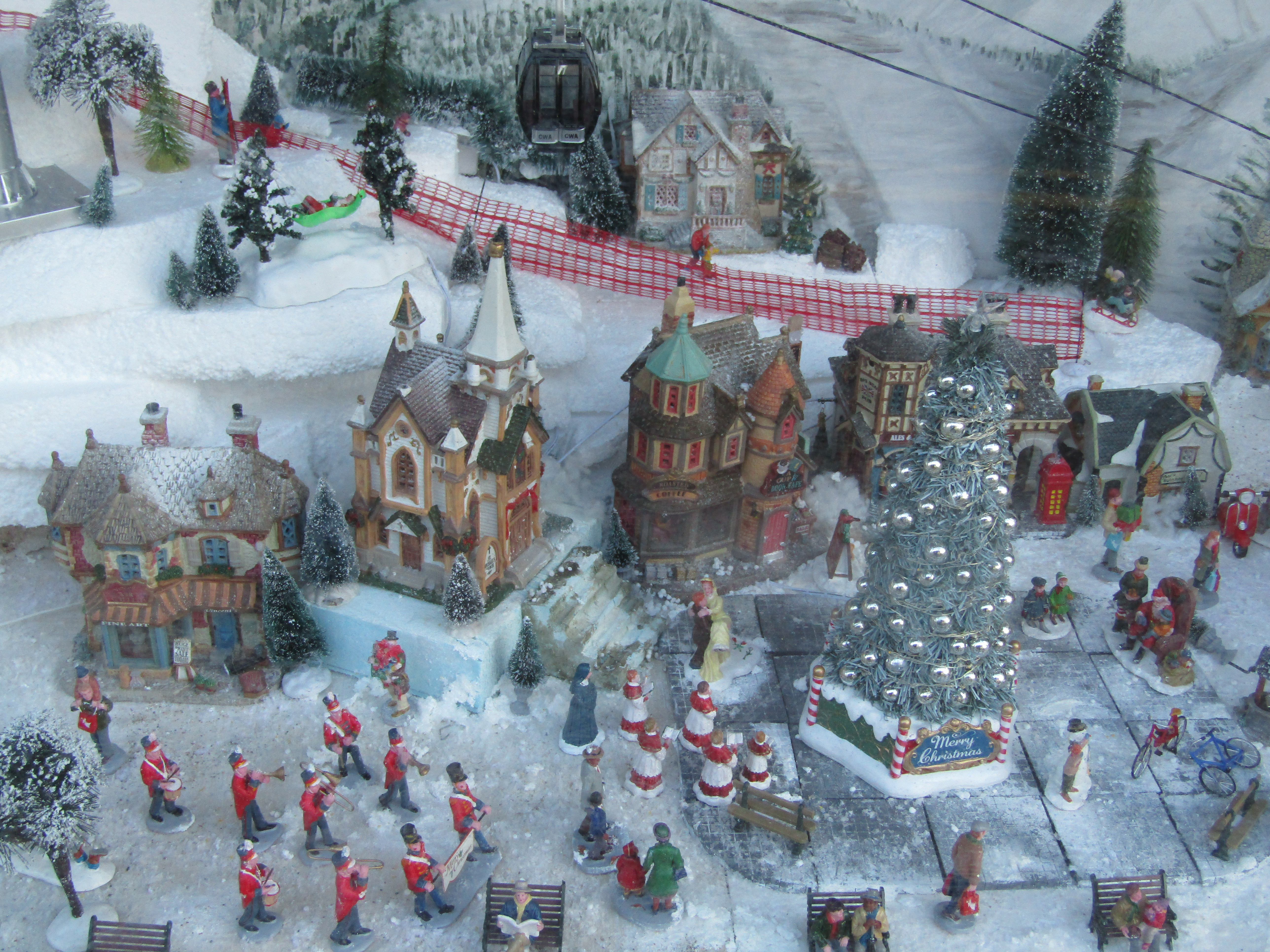 A model of a Christmas village scene on display within the village of Trimingham, Norfolk, England